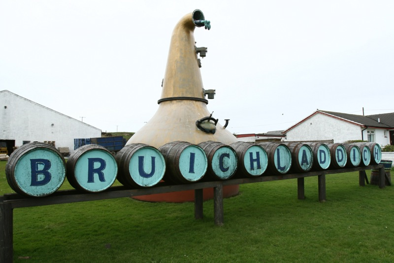 Bruichladdich Distillery on Islay